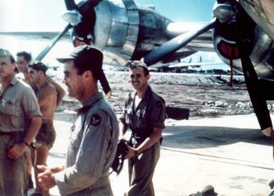 Crew of the Enola Gay, returning from their mission over Hiroshima, Japan. At center is navigator Capt. Theodore Van Kirk, and to the left of him is flight commander Col. Paul Tibbetts.